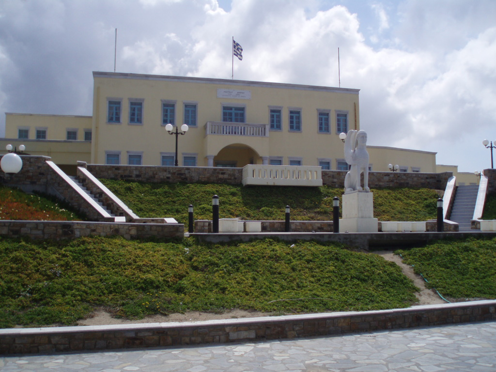 The Town Hall of city of Naxos, south side of port of Naxos island - Greece